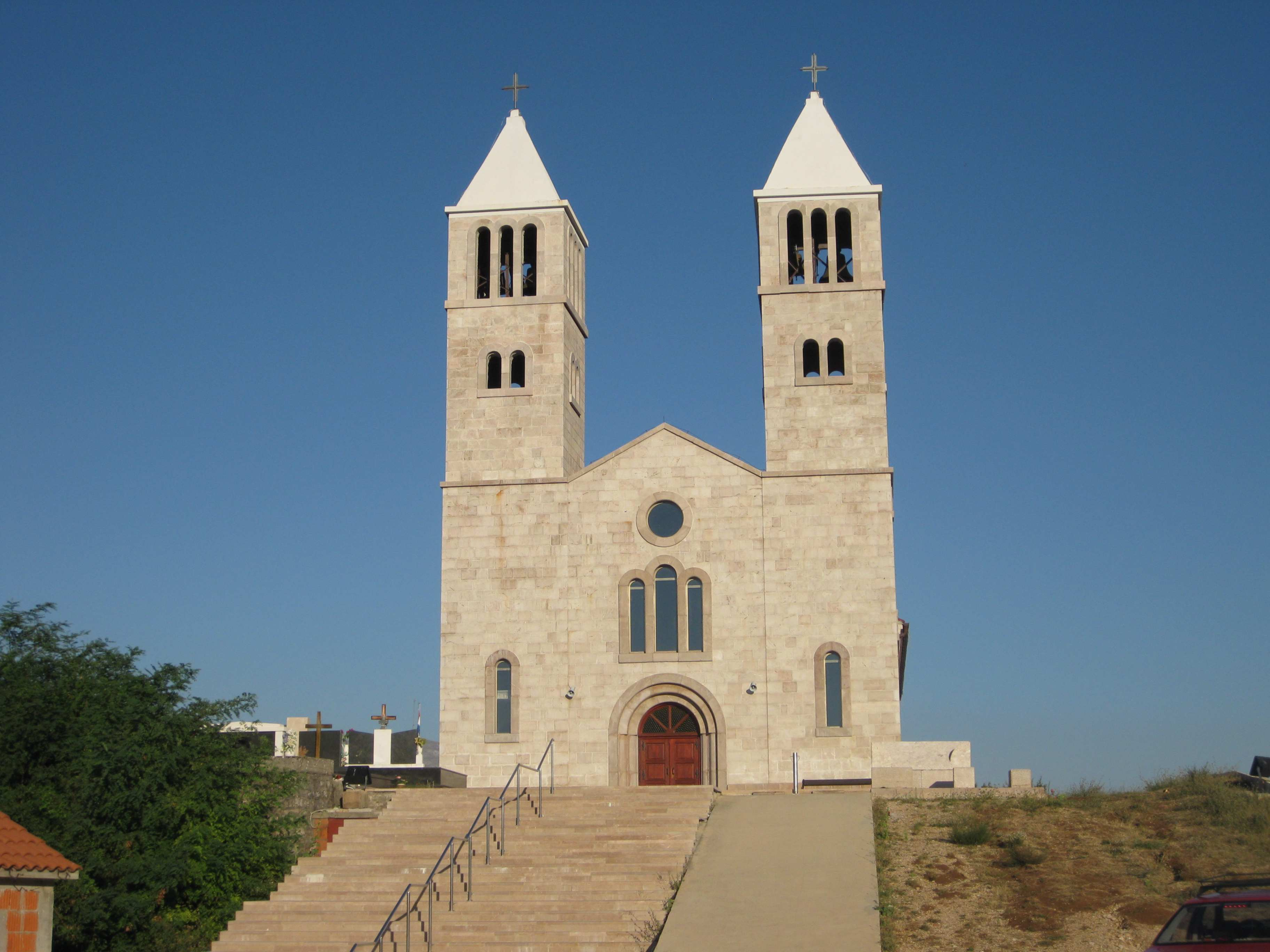 St. Michael church in Kijevo, front view